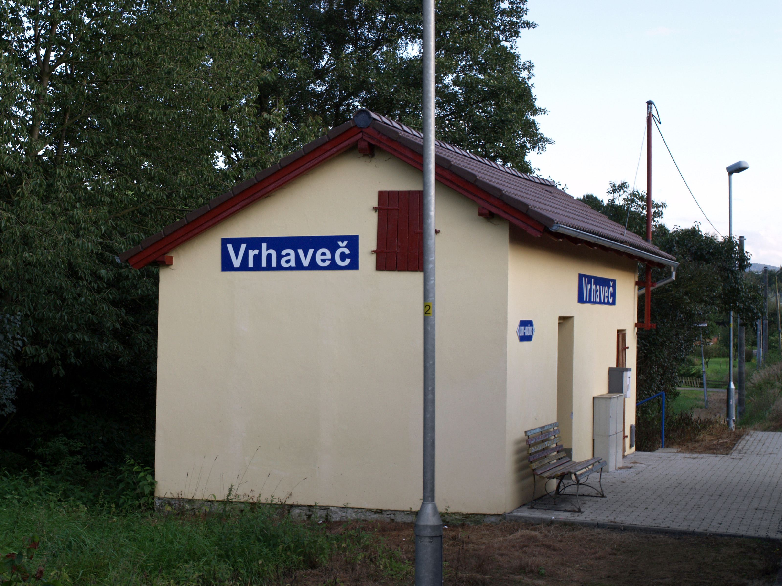 Vrhaveč – train station